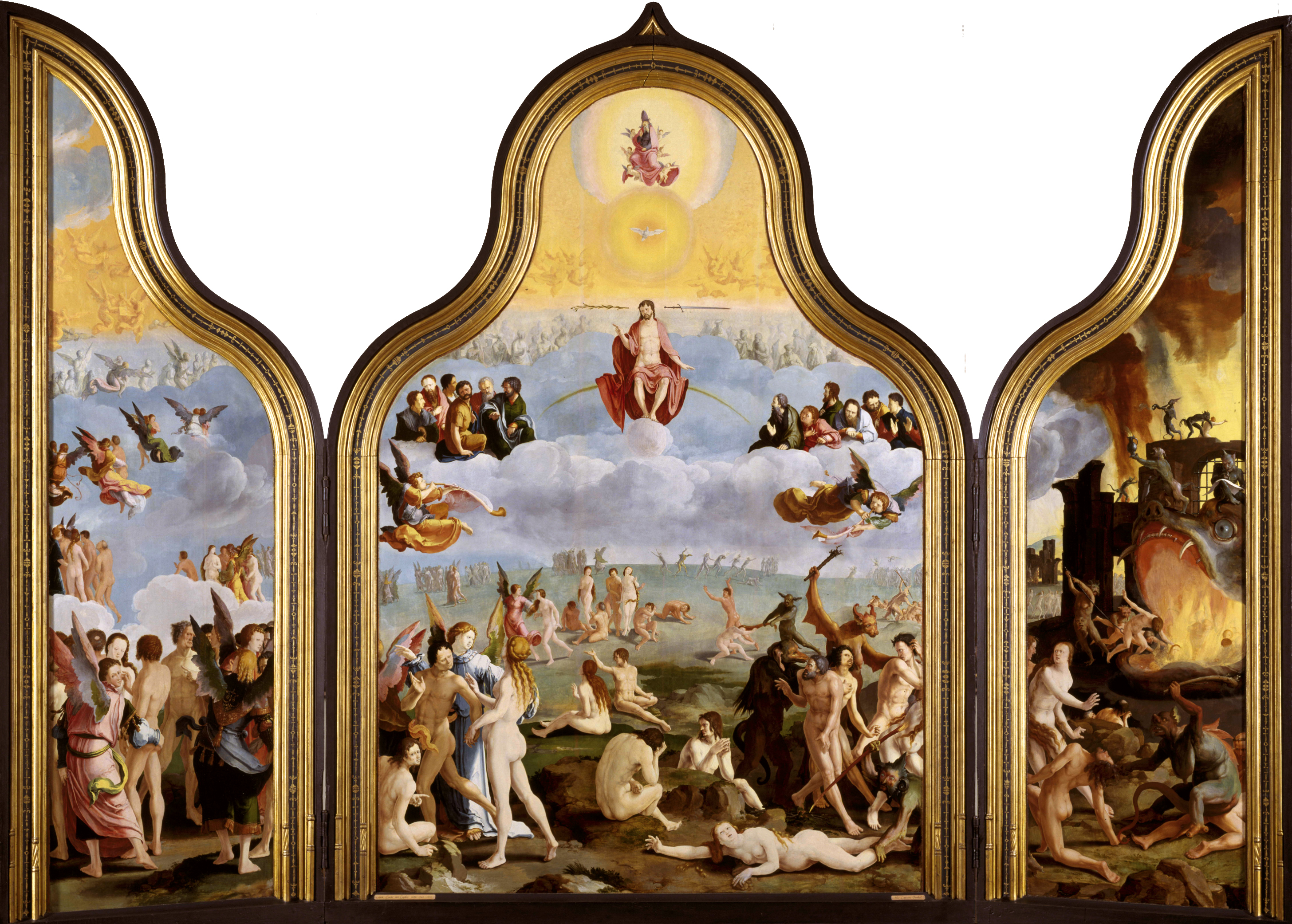 Last Judgment oil on panel 269.5 x 184.8 cm (center), 264 x 76 cm (2 sides) (frameless) 1526 - 1527